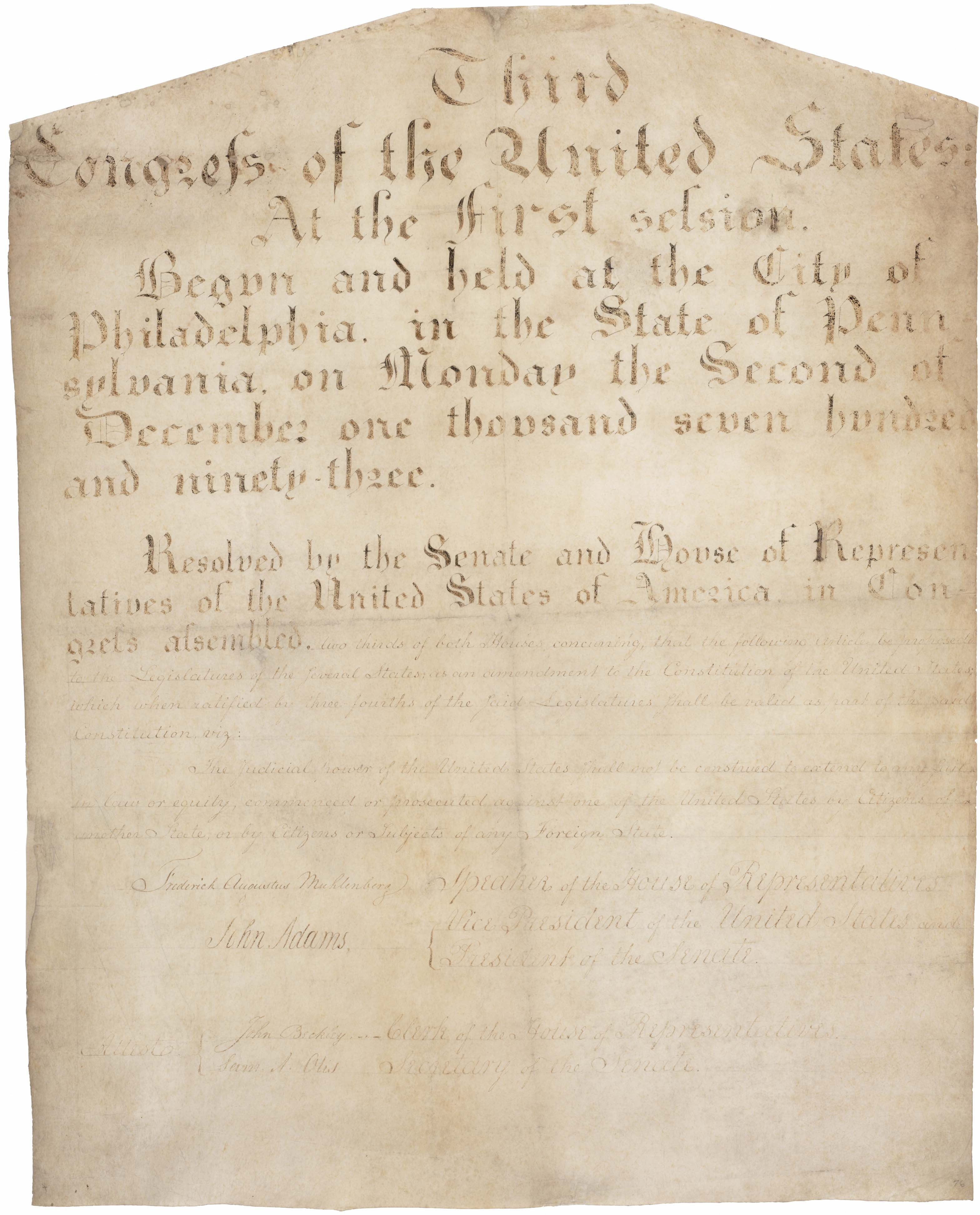 11th amendment of the United States Constitution